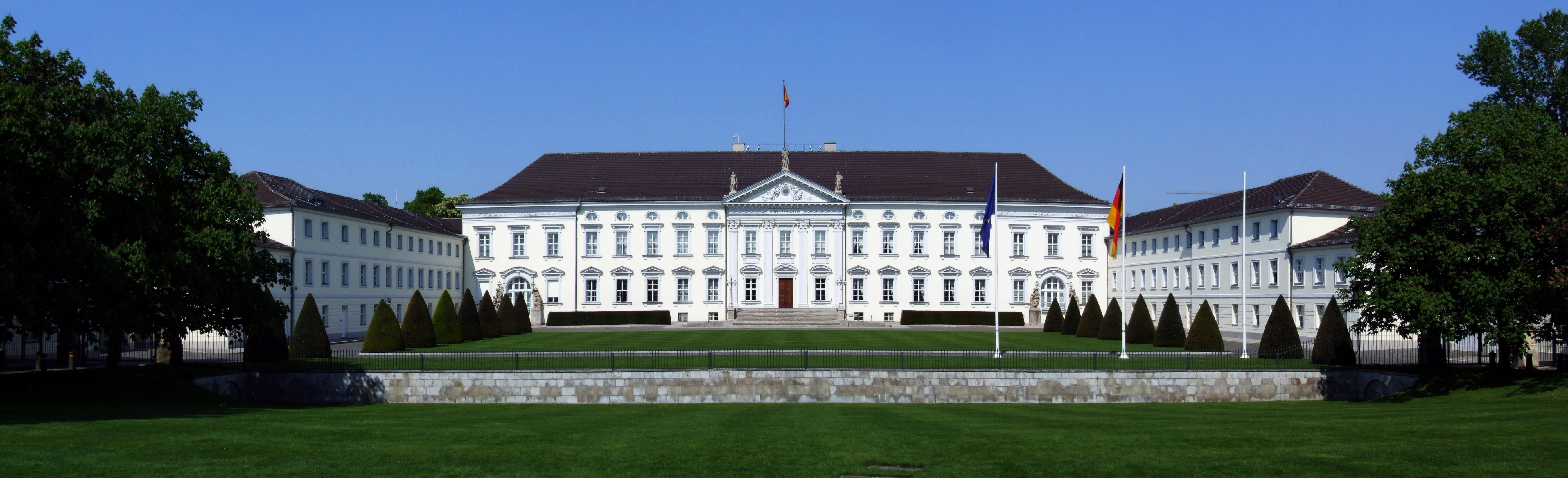 Castle Bellevue, Berlin